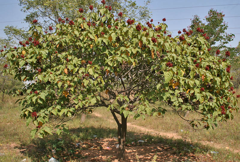 Arnatto, Lipstick plant, Achiote, Aploppas, annatto or pimentao doce Bixa orellana in Hyderabad, India.